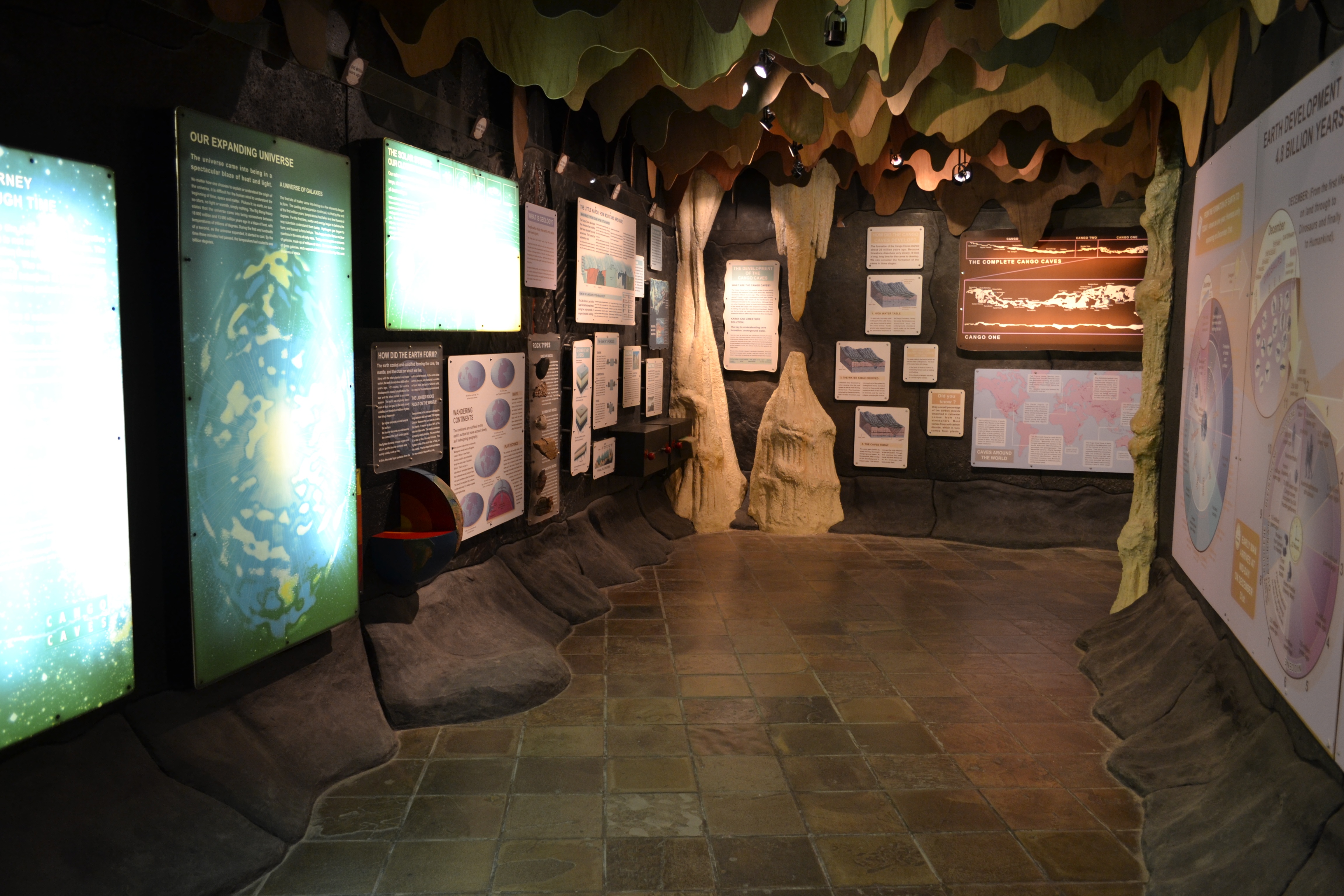 Cango Caves De Kombuis Oudtshoorn District Western Cape South Africa This media shows a South African Protected Site with SAHRA file reference 9/2/068/0001.